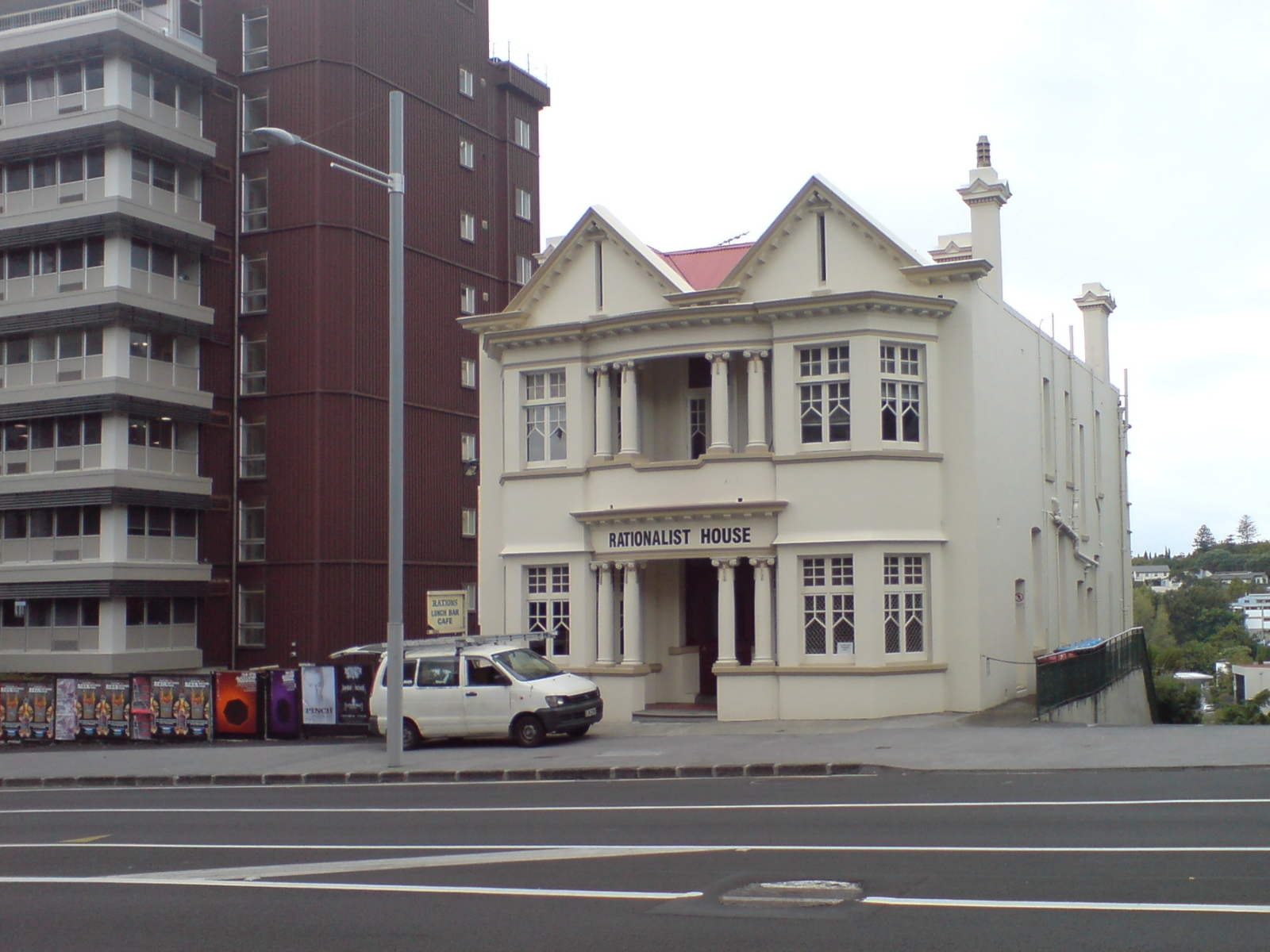 The Rationalist House (also including the - wait for it - 'Rations' cafe / lunch spot) on southern Symonds Street in Auckland, New Zealand.